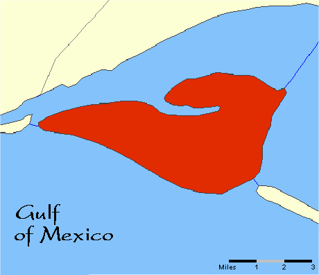 St. Vincent Island (Florida)